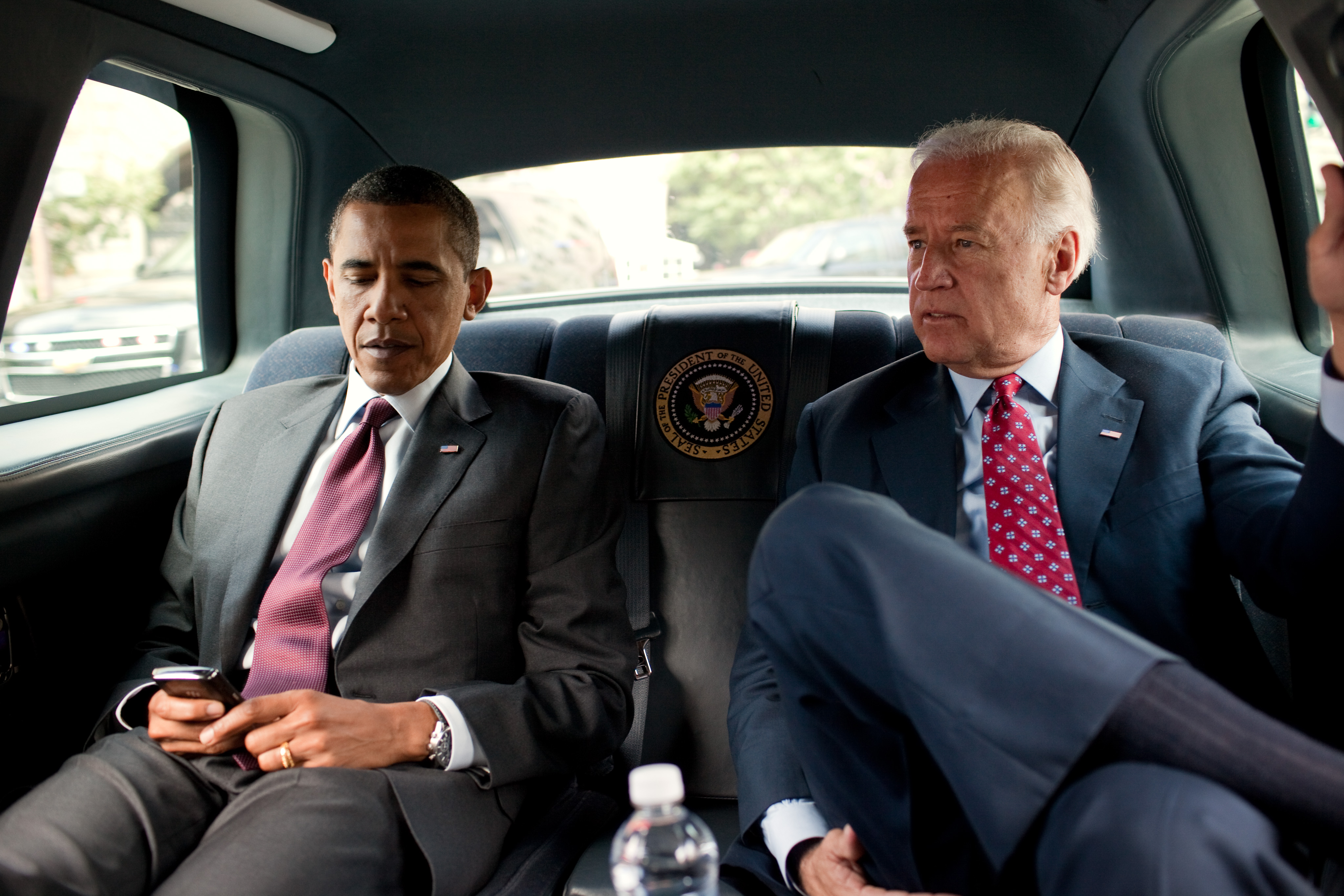 President Barack Obama and Vice President Joe Biden ride in the motorcade from the White House to the Ronald Reagan Building in Washington, D.C., July 21, 2010, to sign the Dodd-Frank Wall Street Reform and Consumer Protection Act.